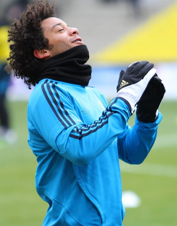 Marcelo Vieira